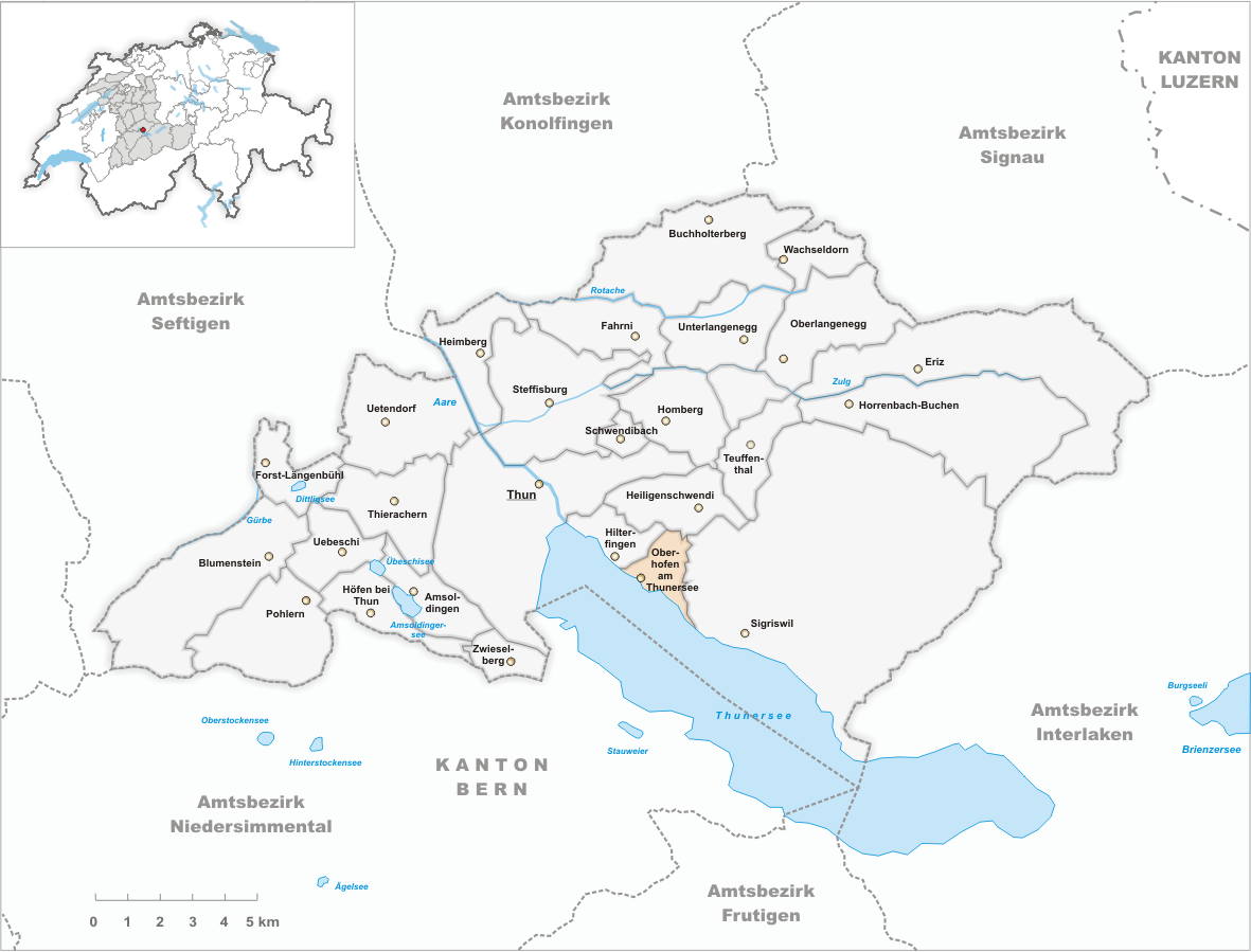 Municipality Oberhofen am Thunersee